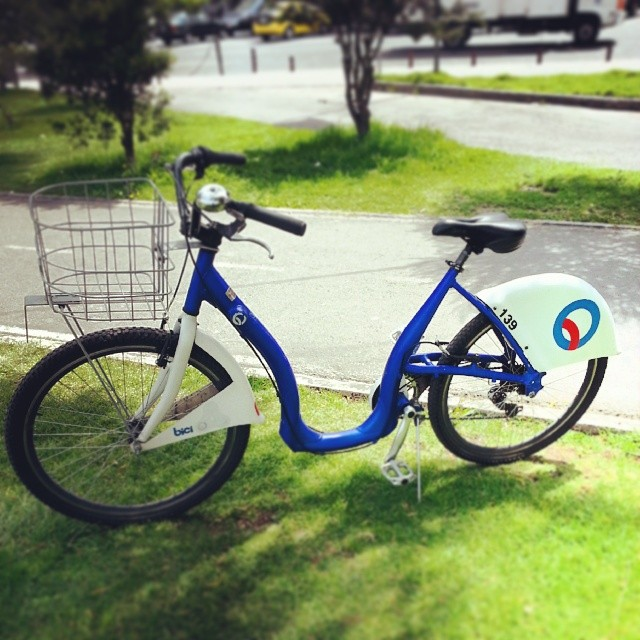 Bicycle of the shared bicycle system "BiciQ" in Quito